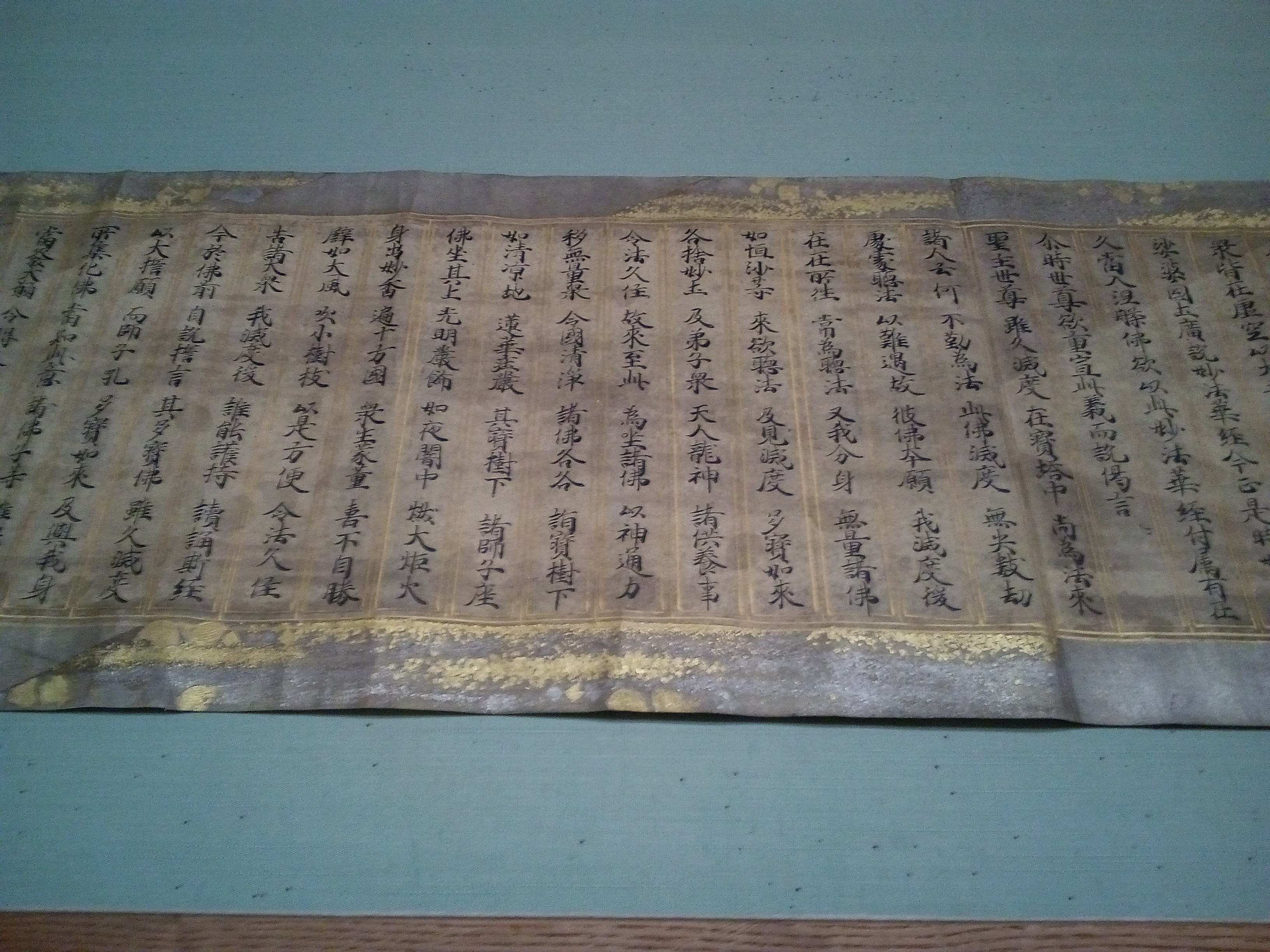 Lotus Sutra, Kenhotohon chapter, Kamakura period (National Treasure, Lent by Jikō-ji, Saitama). Exhibited at the Tokyo National Museum.